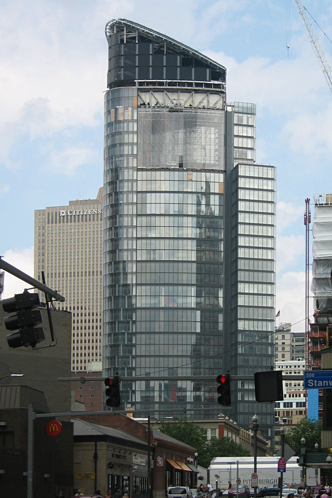 The Tower at PNC Plaza nearing completion in June of 2015